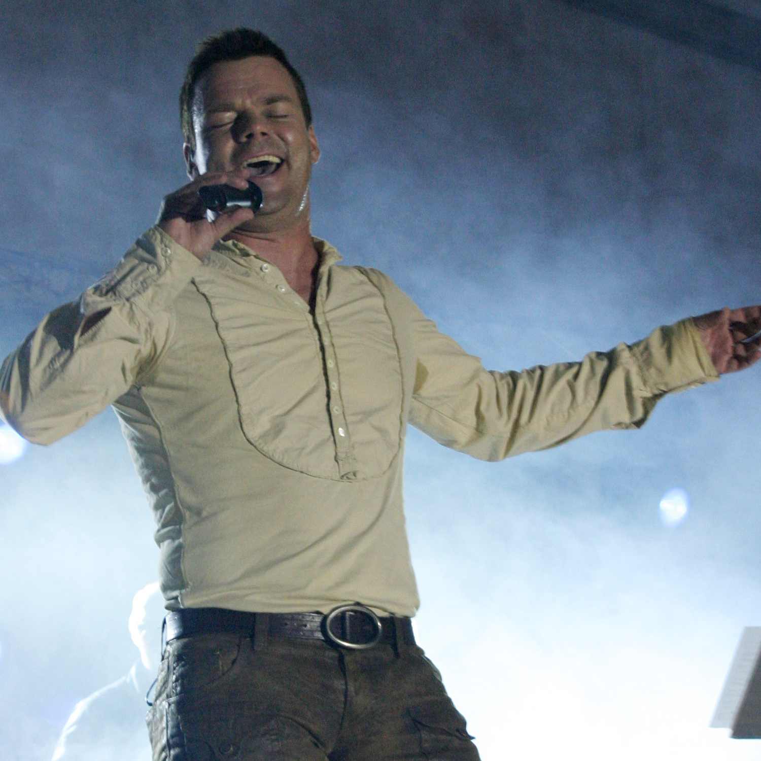 Jari Sillanpää in Vihreät Niityt music festival in the summer 2006.